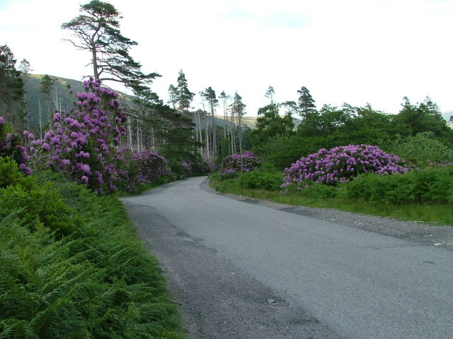 Rhododendrons by the roadside West of Achnashellach.